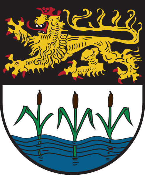 Das Wappen entspricht einem 1536 geschaffenen, zu 1583 überlieferten (LA Speyer, A1 Nr. 2433) und seitdem unverändert geführten Siegel. Es weist in der oberen Schildhälfte Kurpfalz als Ortsherren aus, in der unteren stellen die Schilfkolben sicherlich eine Namensdeutung als Ableitung aus Moor-feld dar.